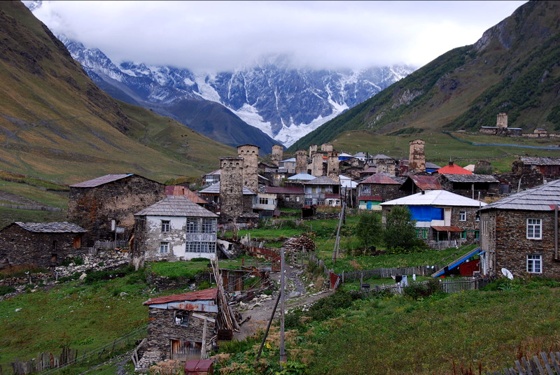 Ushguli Svaneti